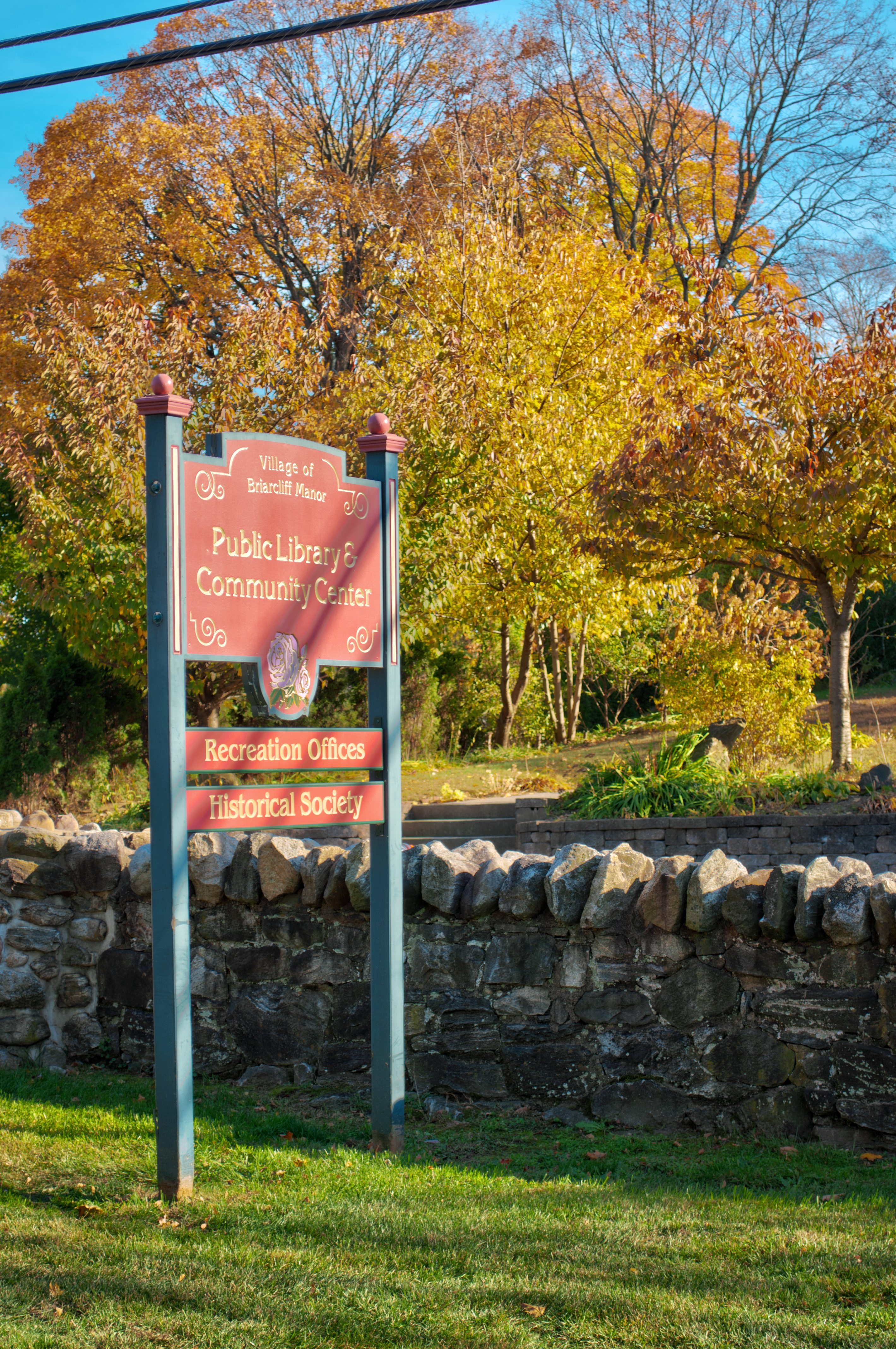 This is an image of the library sign in Briarcliff Manor, taken October 28, 2013.